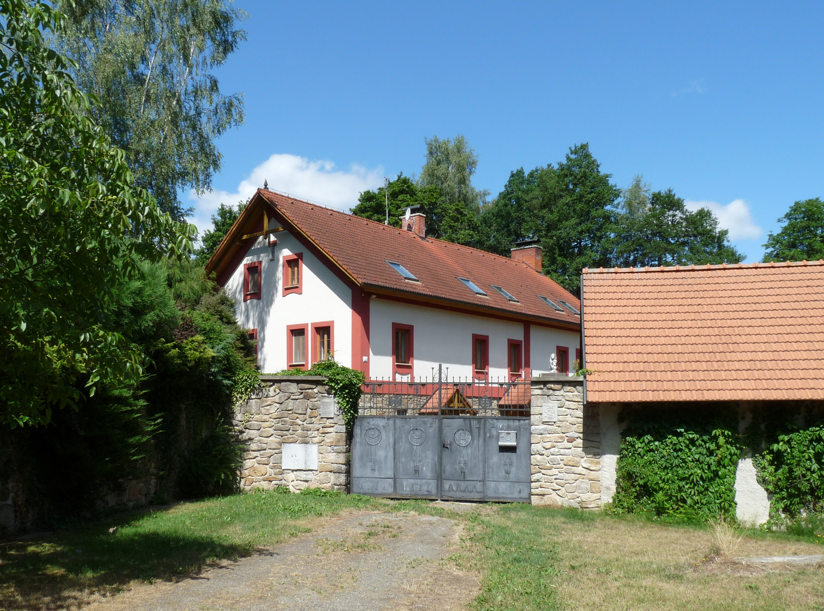 House No 7 in the village of Žebrákov, part of the town of Světlá nad Sázavou, Havlíčkův Brod District, Vysočina Region, Czech Republic.